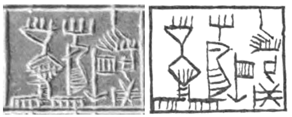 Enhegal King of Lagash (horizontal)